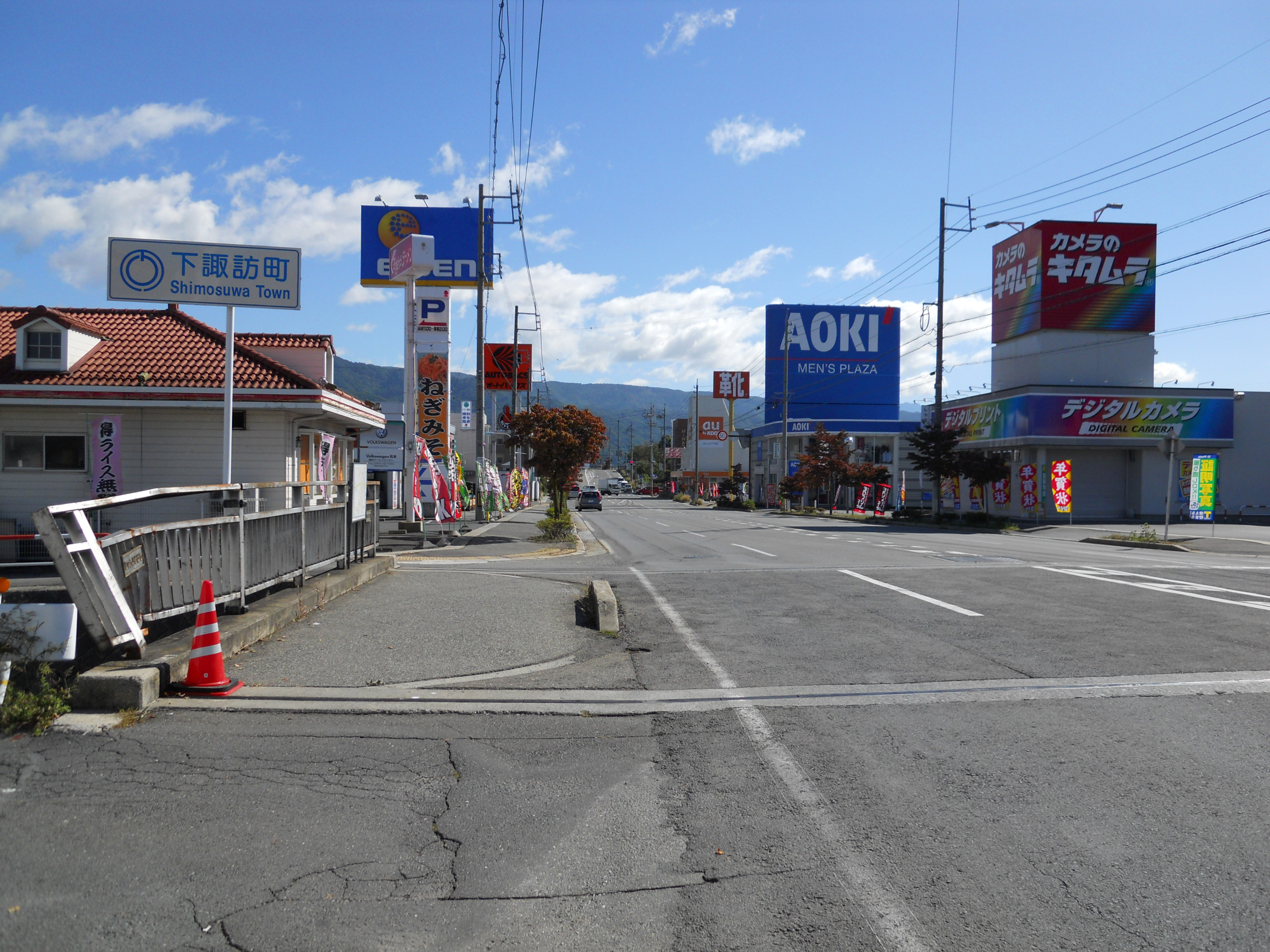 The Nagano Prefectural Road Route 185 on the Okaya-Shimosuwa border